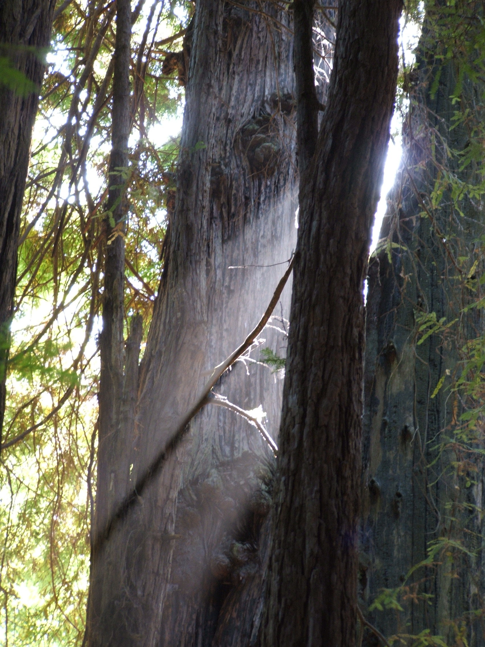 Muir Woods National Monument.